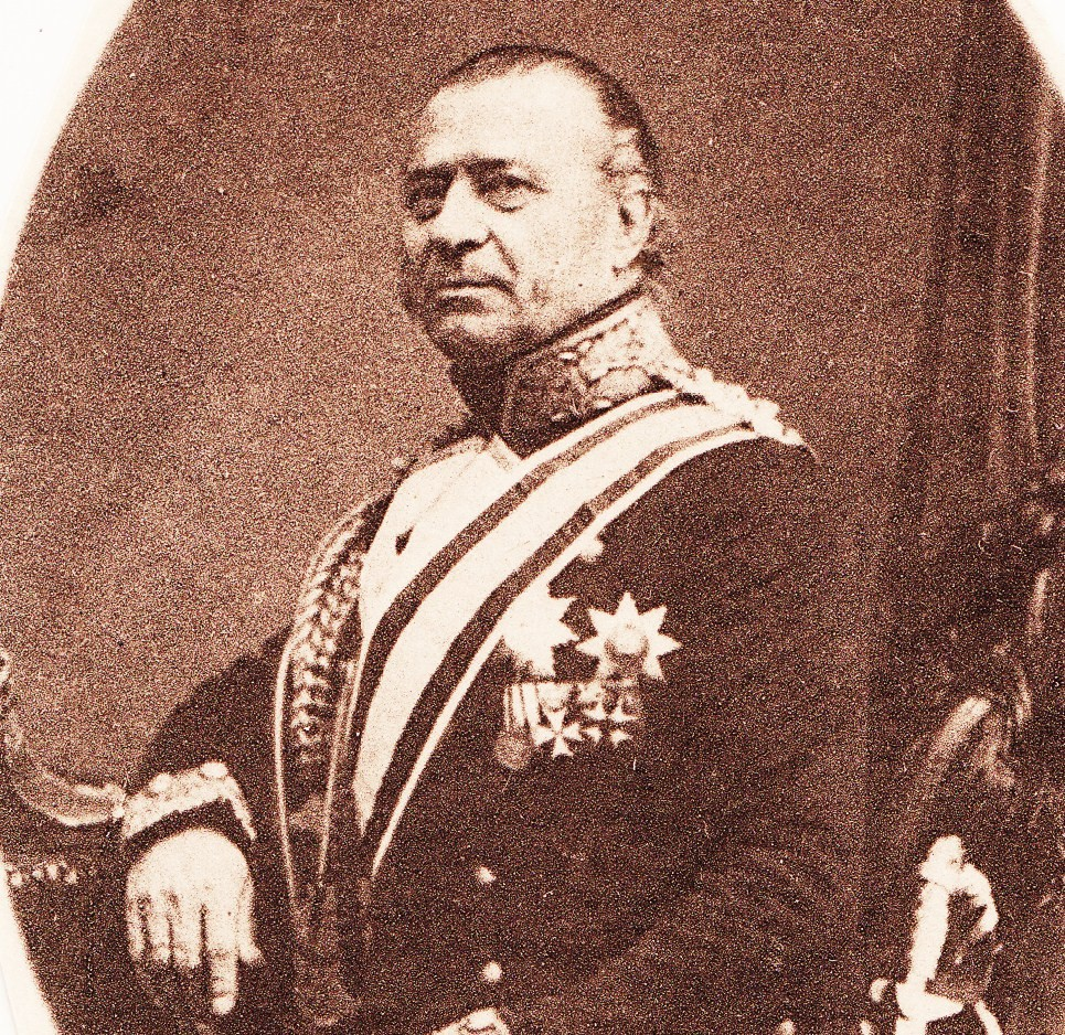 Jan Schroder